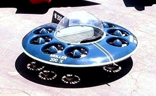 Derivative work of Moller Skycars.jpg